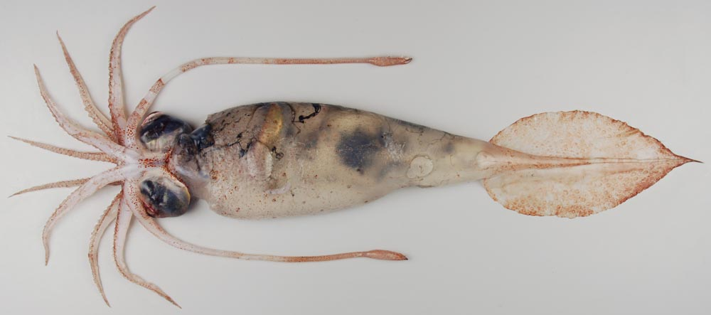 Ventral view of a specimen of Galiteuthis glacialis recovered from the Ross Sea of Antarctica (71°59'S, 173°24'E). Specimen has a mantle length of 321 mm. Photograph by Darren Stevens of New Zealand, International Polar Year and the Census of Antarctic Marine Life.